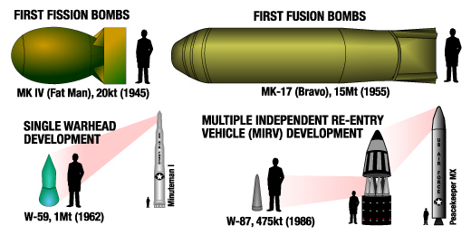 Graphic showing relative sizes of various types of nuclear weapons. Clockwise from upper left: a Fat Man (MK-IV) bomb similar to the type dropped on Nagasaki, Japan; a MK-17 hydrogen bomb of the sort detonated at the Castle Bravo test; a W-87 warhead inside its re-entry vehicle (see MIRV, LGM-118A Peacekeeper); and a W-59 warhead used on the early Minuteman missiles.